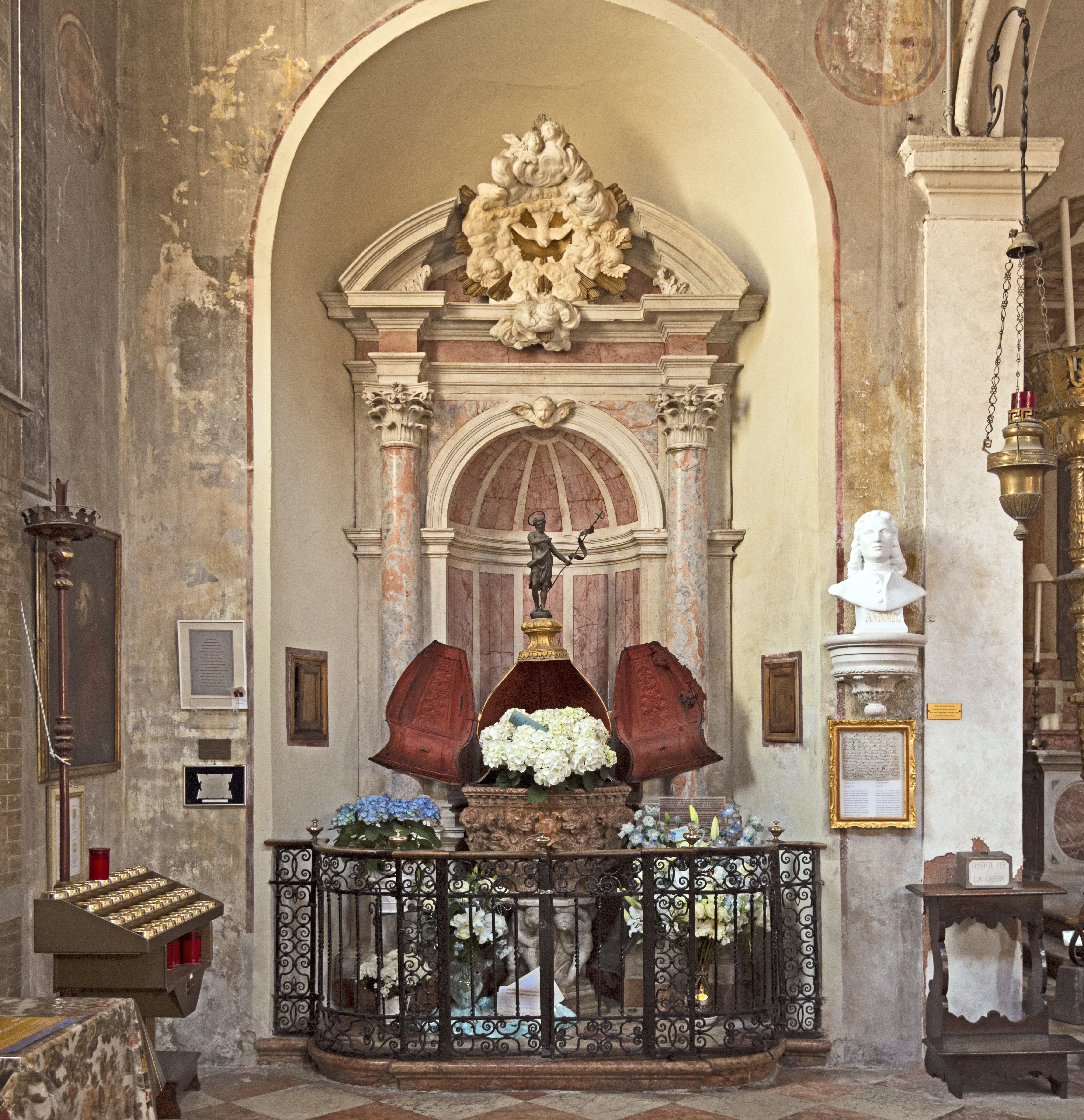 Church of San Giovanni in Bragora in Venice - Font of Antonio Vivaldi